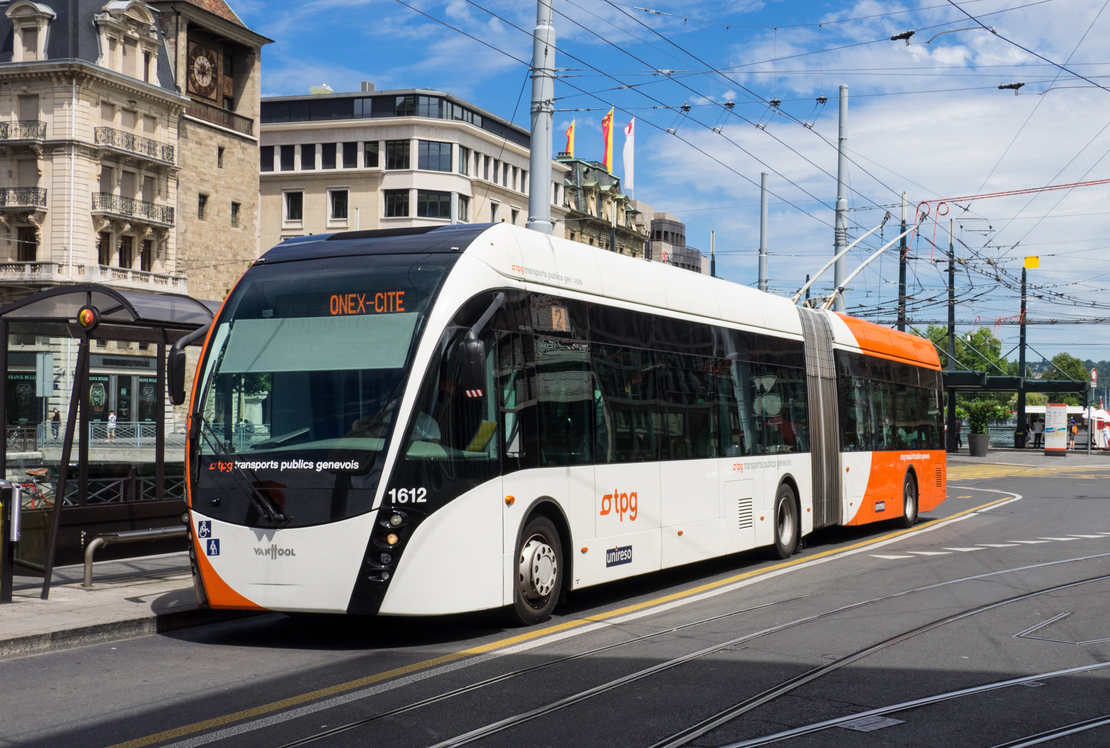 Geneva trolleybus 1612, a 2014 Van Hool ExquiCity 18, on route 2 at Place de Bel-Air